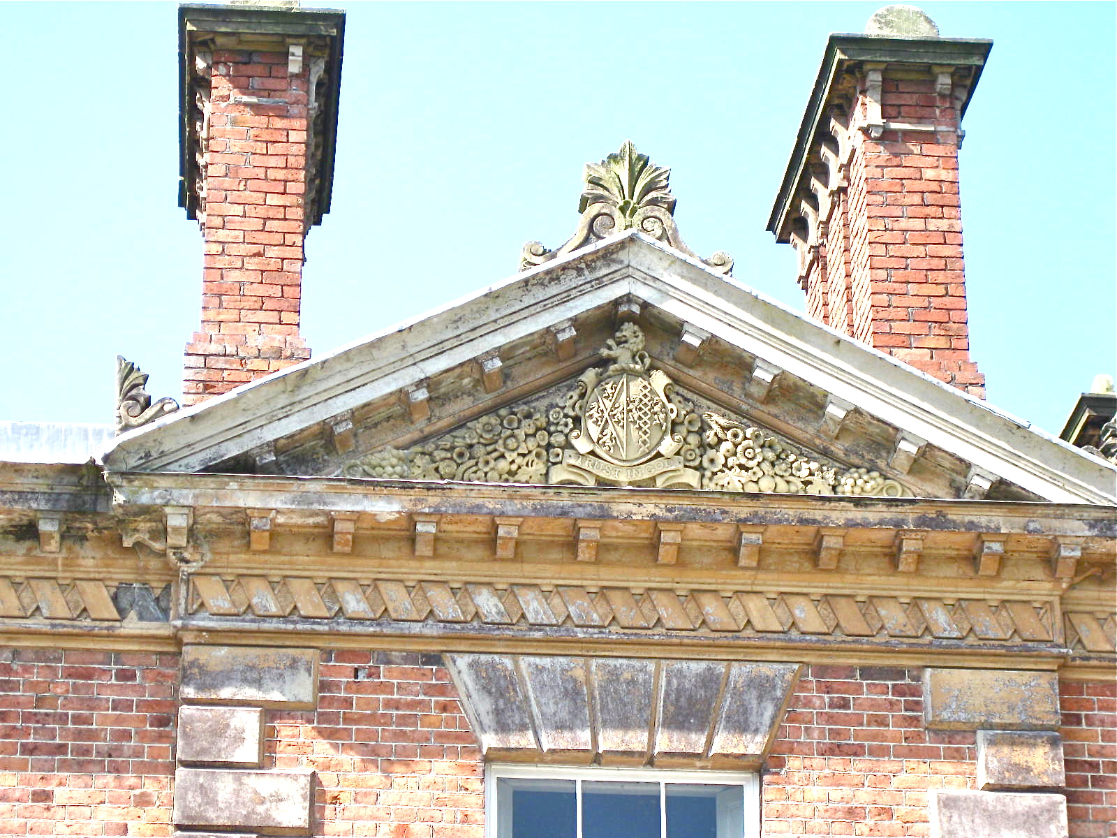 Garthmyl Hall is a Grade II listed house in Berriew, in the historic county of Montgomeryshire, now Powys. Pediment with armorial.